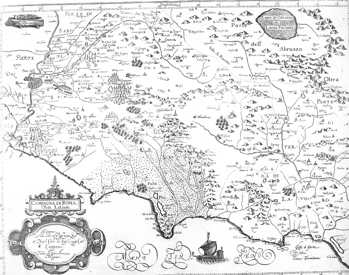 Campagna di Roma or Campagna and Marittima olim Latium